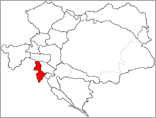 Source: Afbeelding:Donaumonarchie_kustland.GIF